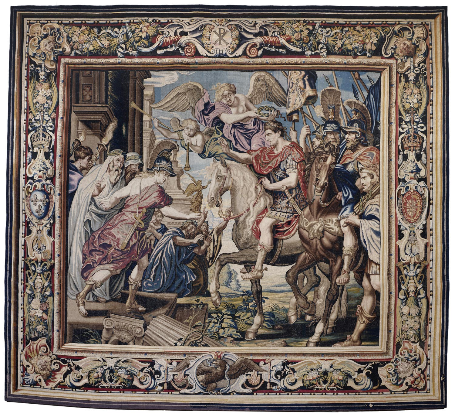 Tapestry showing Constantine's Triumphal Entry into Rome. Wool and silk and gold and silver threads. 487 × 544.4 cm. Philadelphia Museum of Art. Inventory number 1959-78-1.